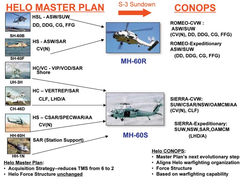 US Navy Helicopter Master Plan.